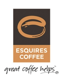 Updated logo for Esquires Coffee Houses 2014